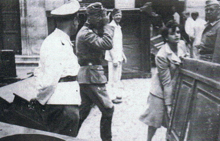 Synagogue of Bayonne (France). 1942 Requisition of the synagogue by the soldier of the Wehrmacht